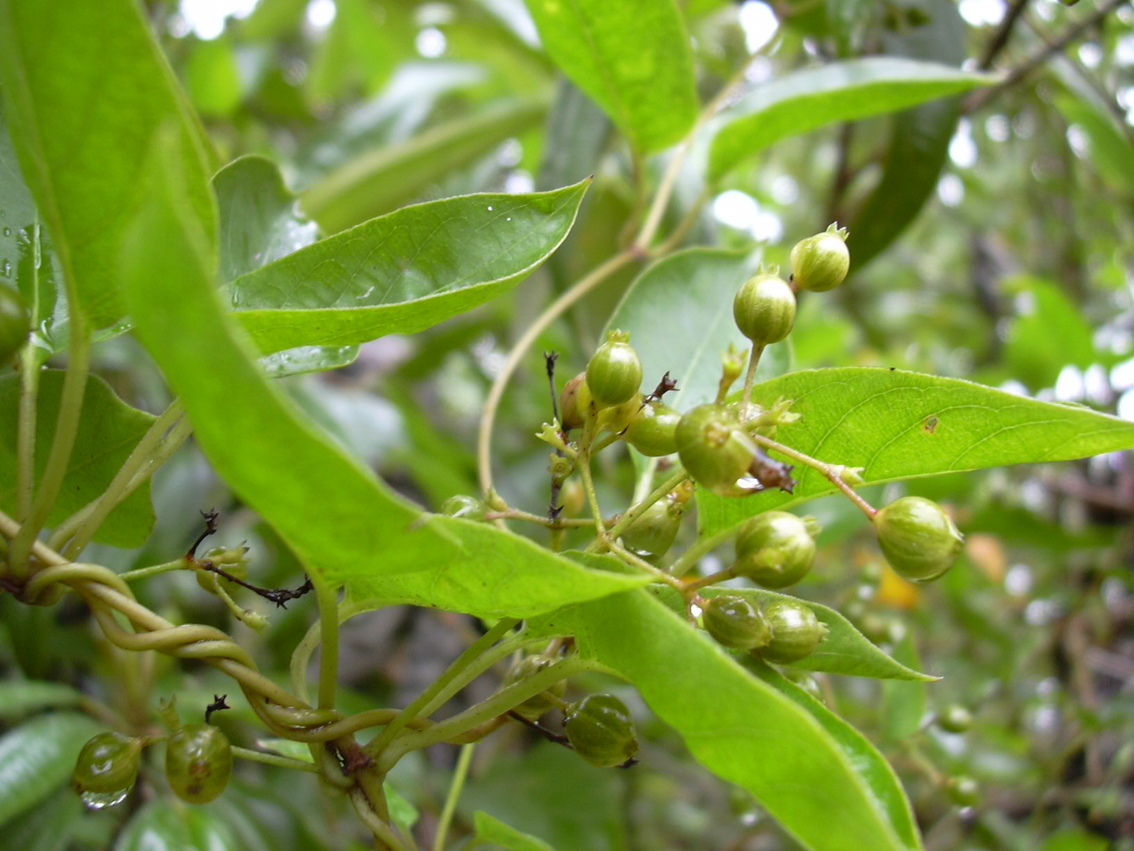 Paederia foetida (fruit). Location: Hawaii, Hilo